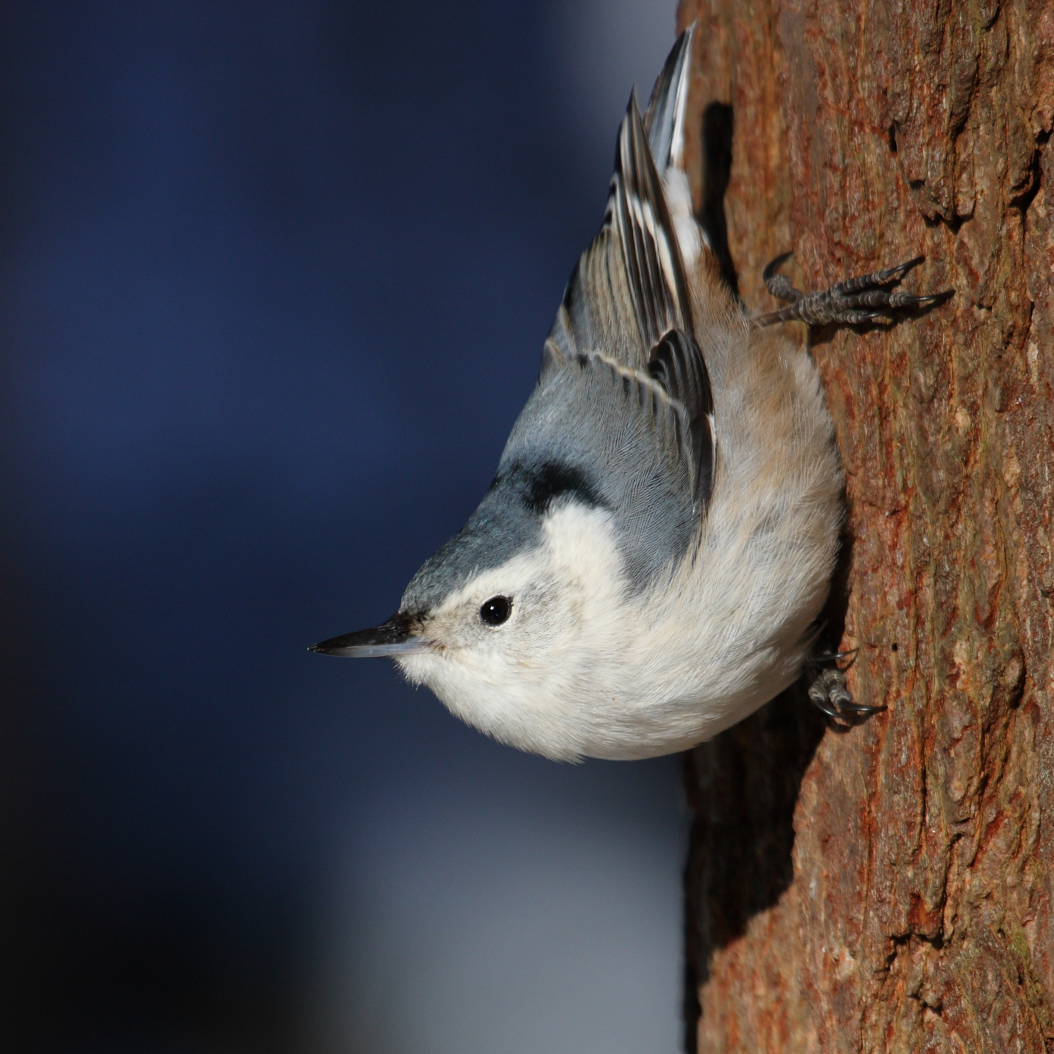 White-breasted Nuthatch (Sitta carolinensis), female, Cap Tourmente National Wildlife Area, Quebec, Canada.